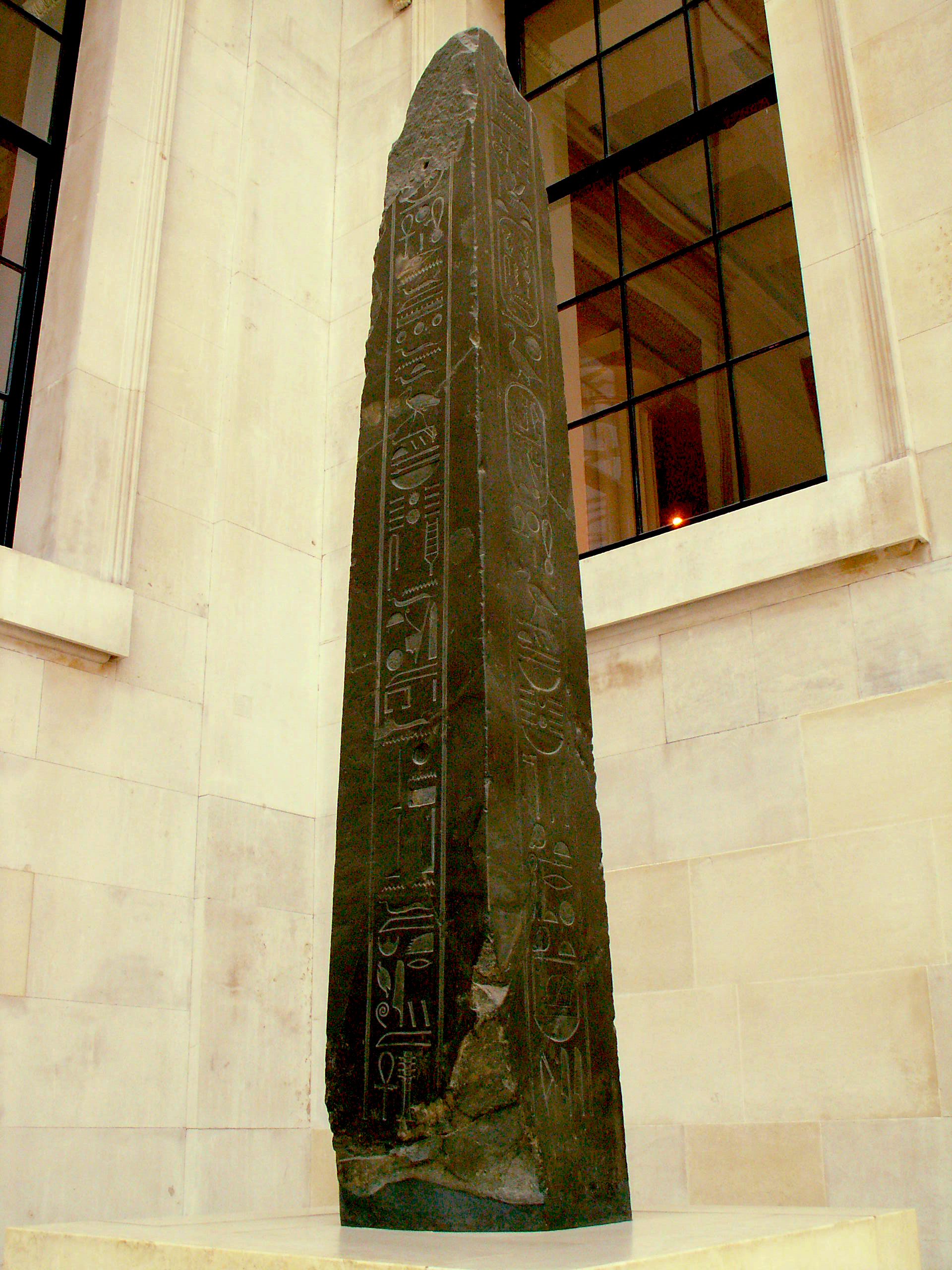 Black siltstone obelisk of King Nectanebo II of Egypt, Thirtieth dynasty, about 350 BC. According to the vertical inscriptions Nectanebo set up this obelisk at the doorway of the sanctuary of Thoth, the Thrice-Great, Lord of Hermopolis. Nowadays the obelisk is placed in the British Museum, London. Hieroglyphs: to "set-up" the obelisk, the Mast-hieroglyph is found on left-face, at mid-point. (The Mast..or.."aha", in "S-aha", is the verb, to erect. (s-combinations, are often verbs)). (The Mast, 'aha' is an adjective or verb, "to-stand-up", erect, erected.) Near the bottom of the same column, can be found hieroglyphs: Reed, (flowering), the Black-(soil)-(Kem)-(crocodile skin(?) hieroglyph, and adjacent to it: the Bone-with-meat hieroglyph.